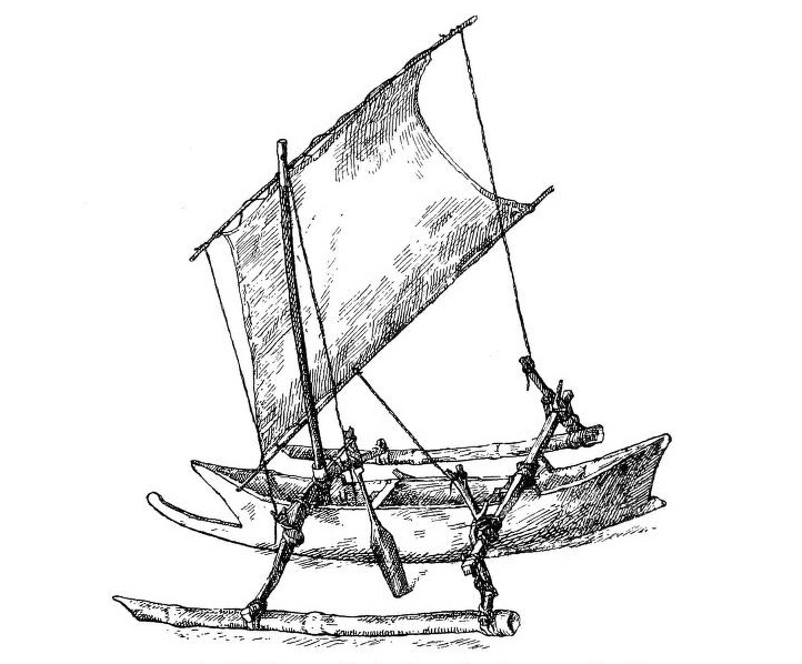 Model of a native double outrigged canoe or londi.